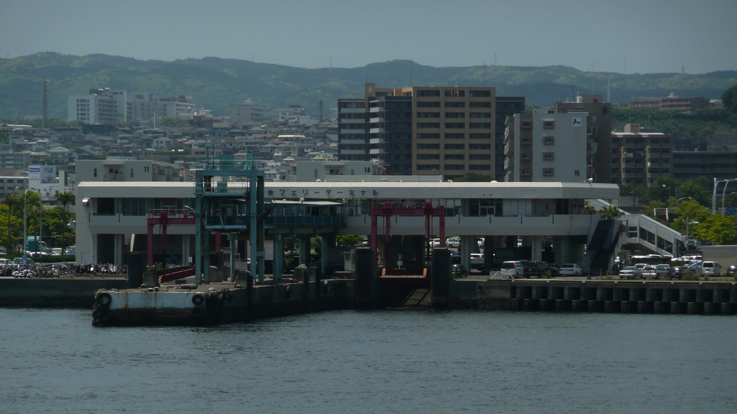 Kamoike Ferry Terminal (Kagoshima Prefecture, Japan)